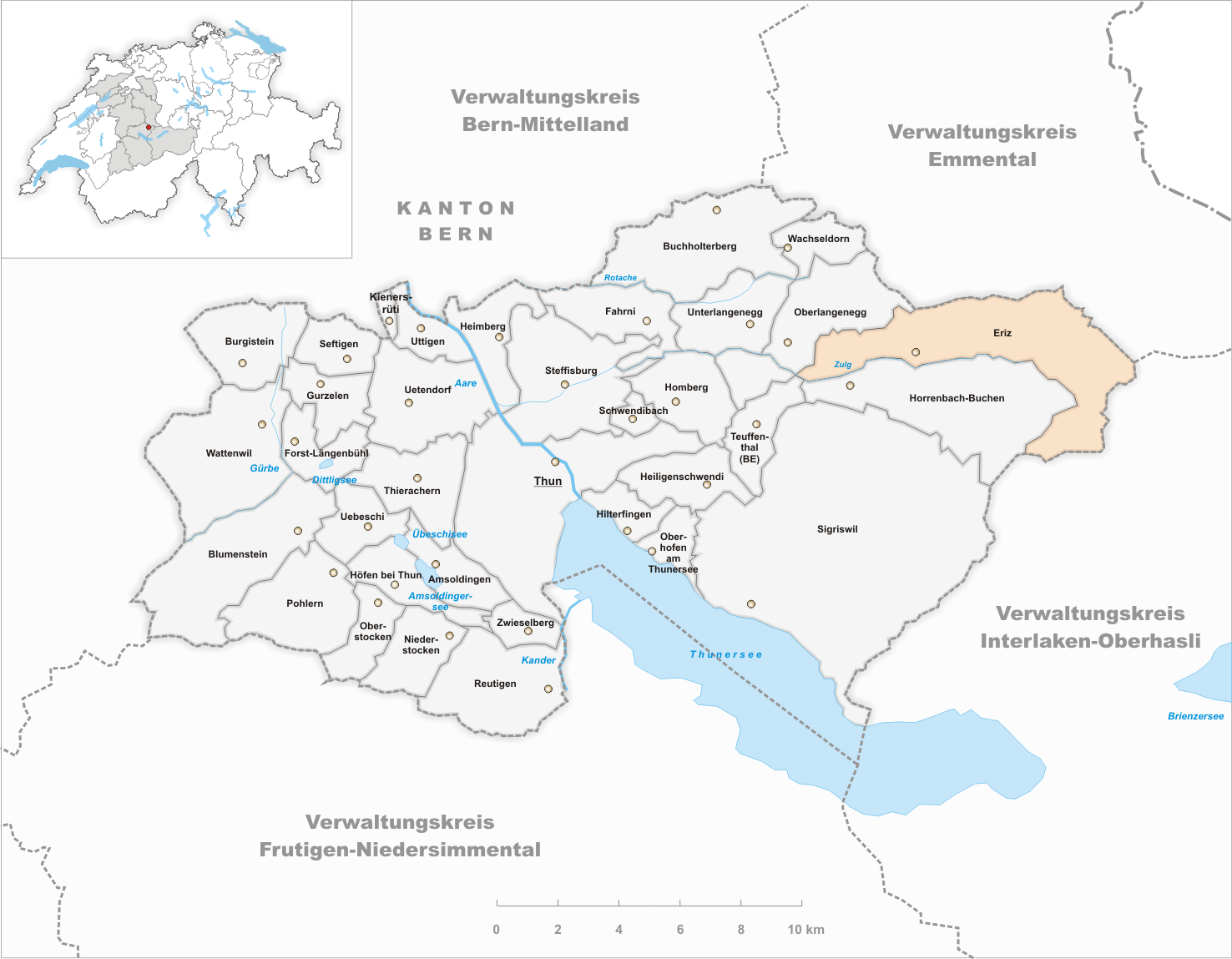 Municipality Eriz